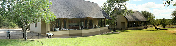 Family housing at Orpen Rest Camp, Kruger National Park